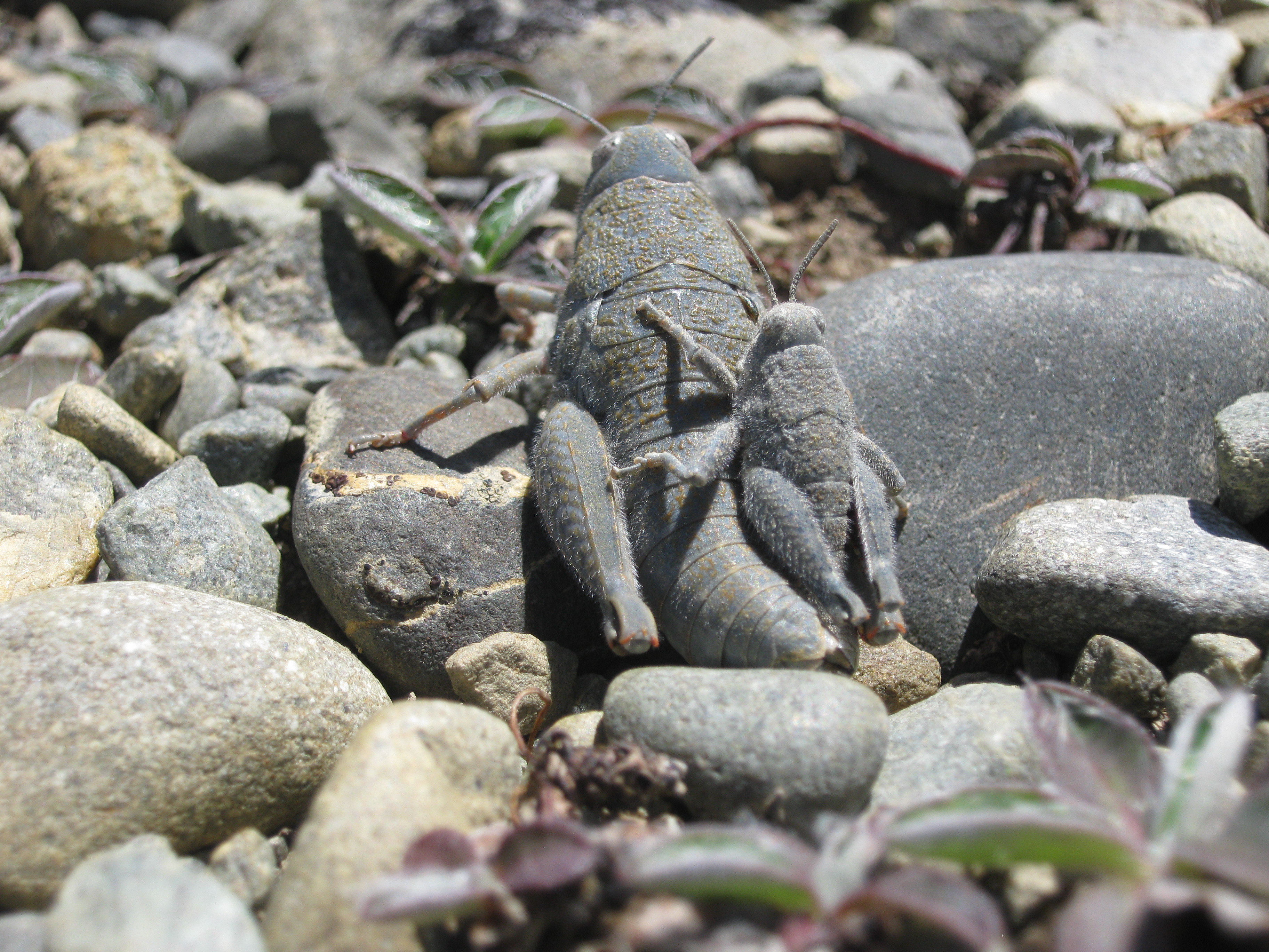 Copulating B. robustus. The female is much larger than the male.